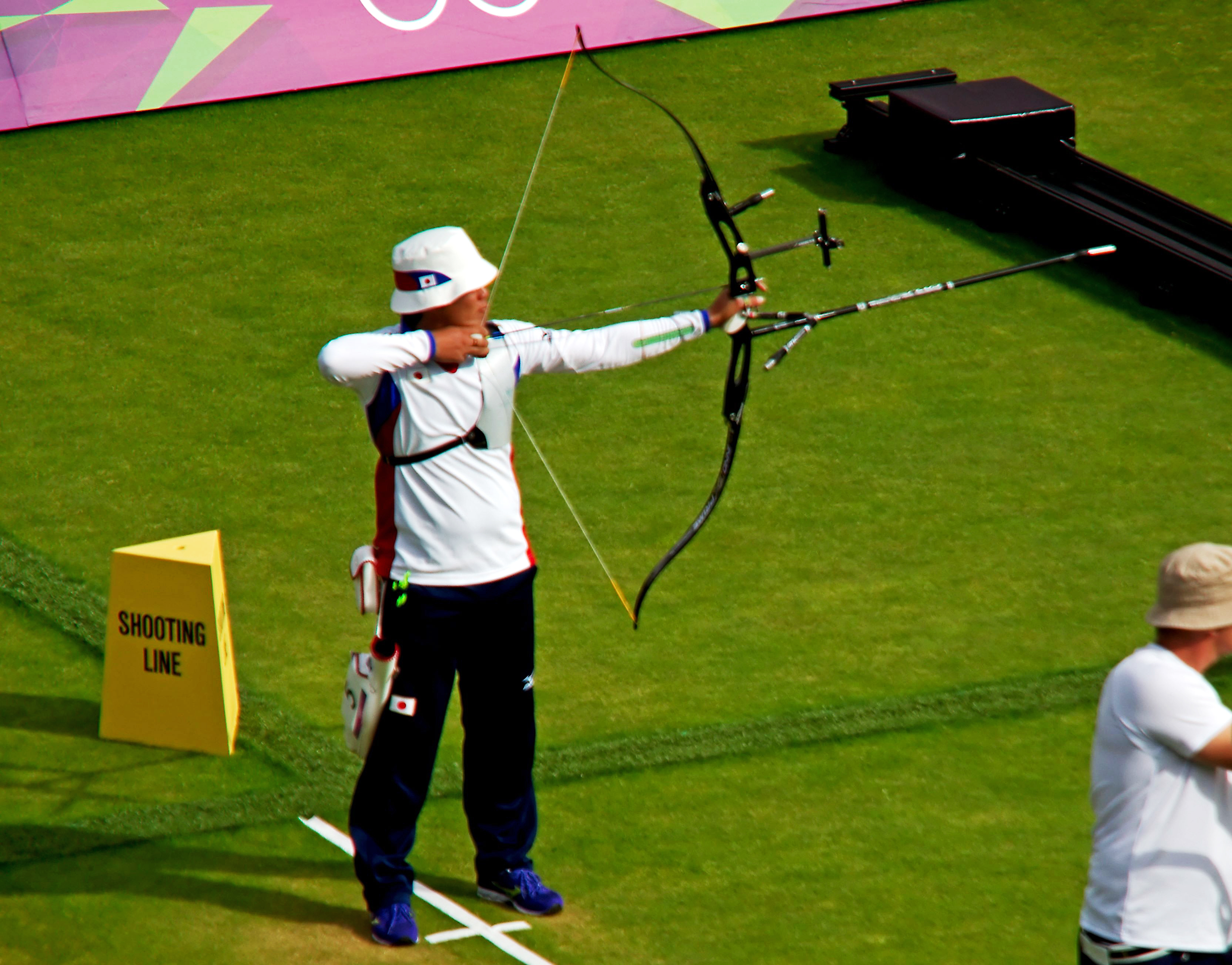 Shooting in the last 16